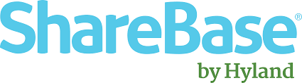 This is a logo of Hyland Software product: ShareBase. We use this logo as description for Wikipedia - Hyland Software page.